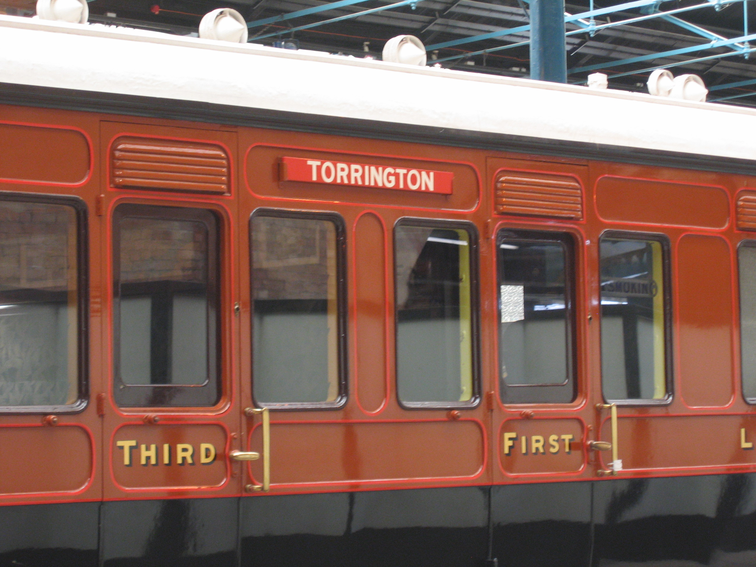 Coach for first and third class